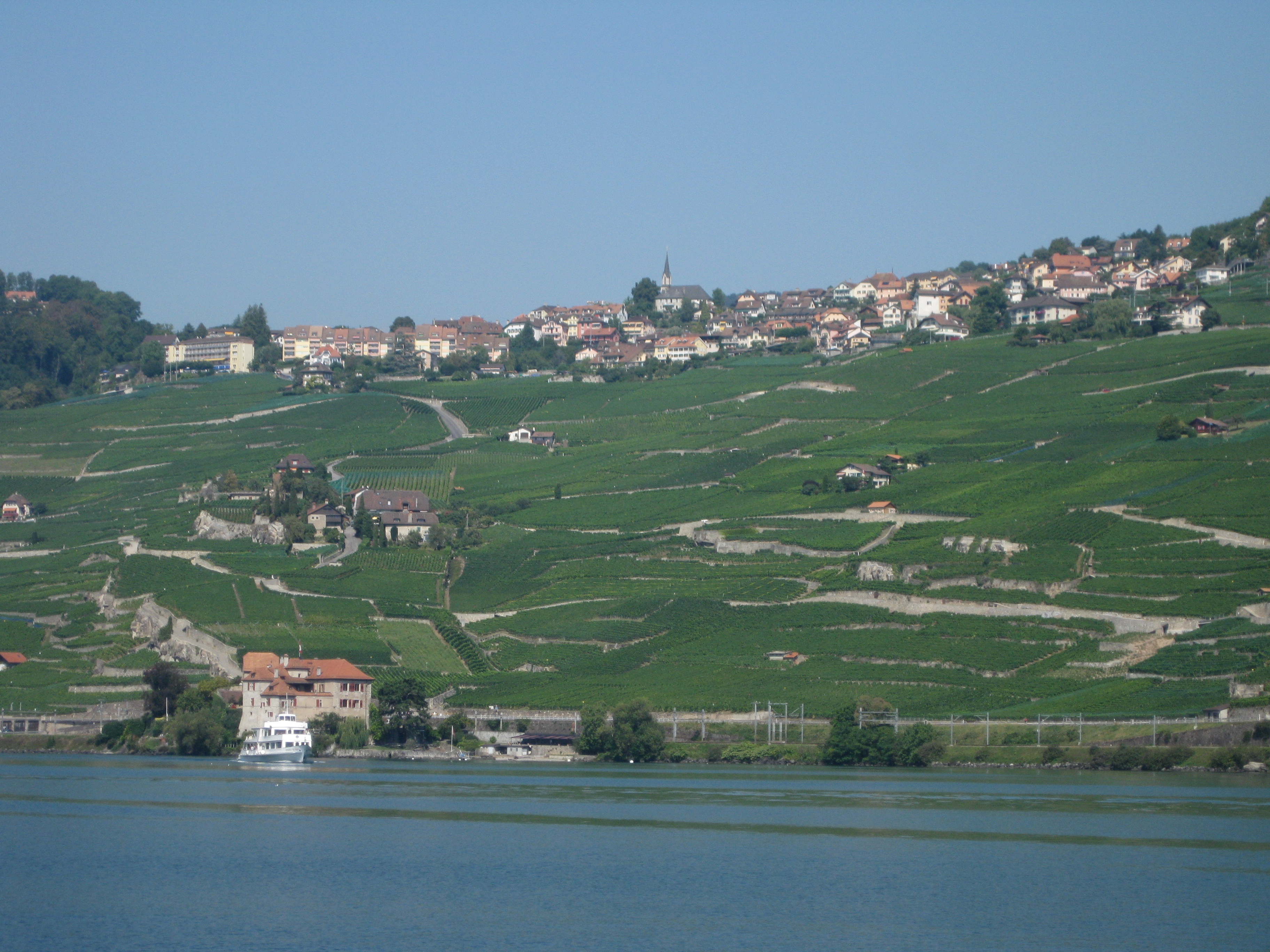 Around the lake of Geneva, Switzerland / France. Location see geotag.